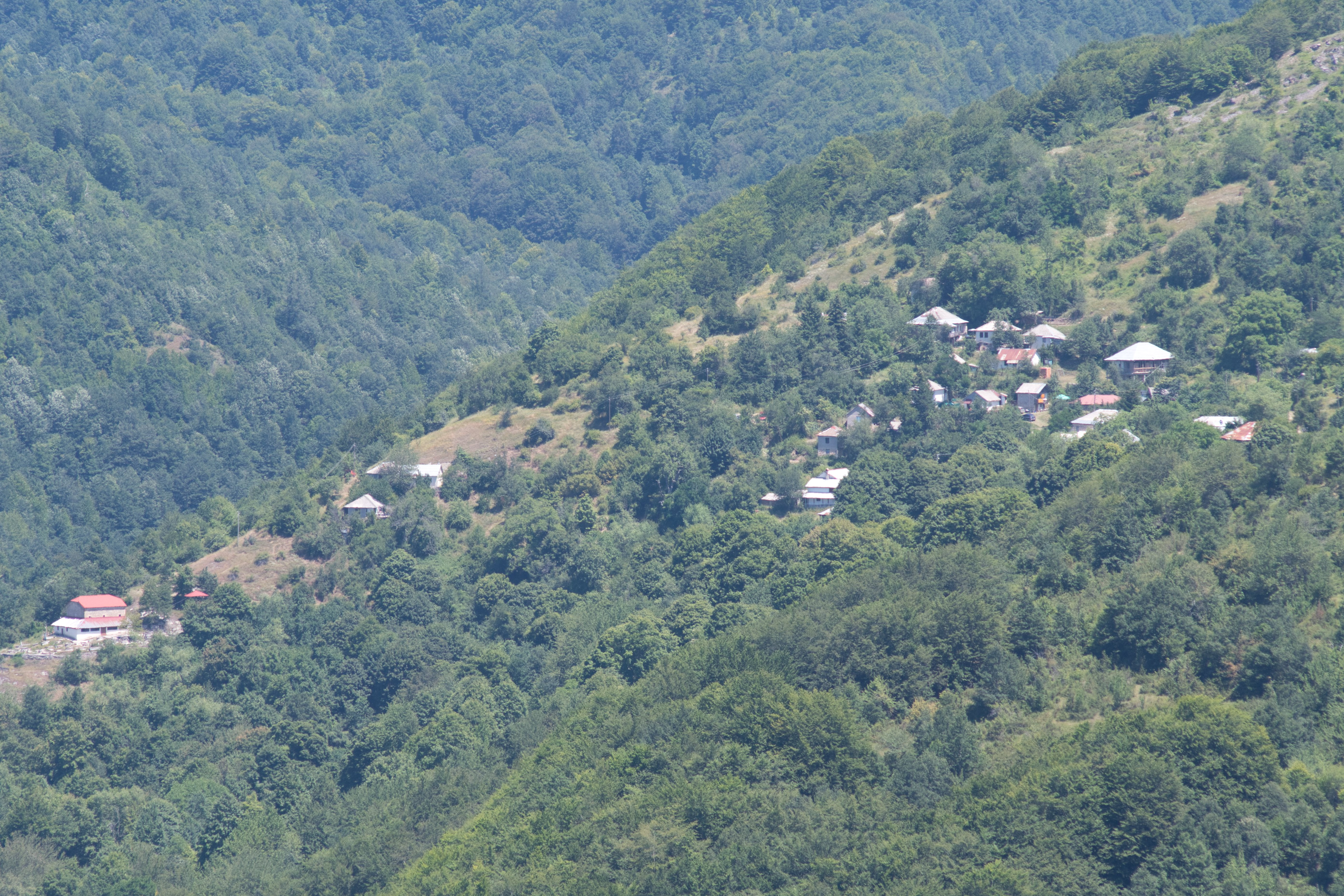 View of the village R'žanovo